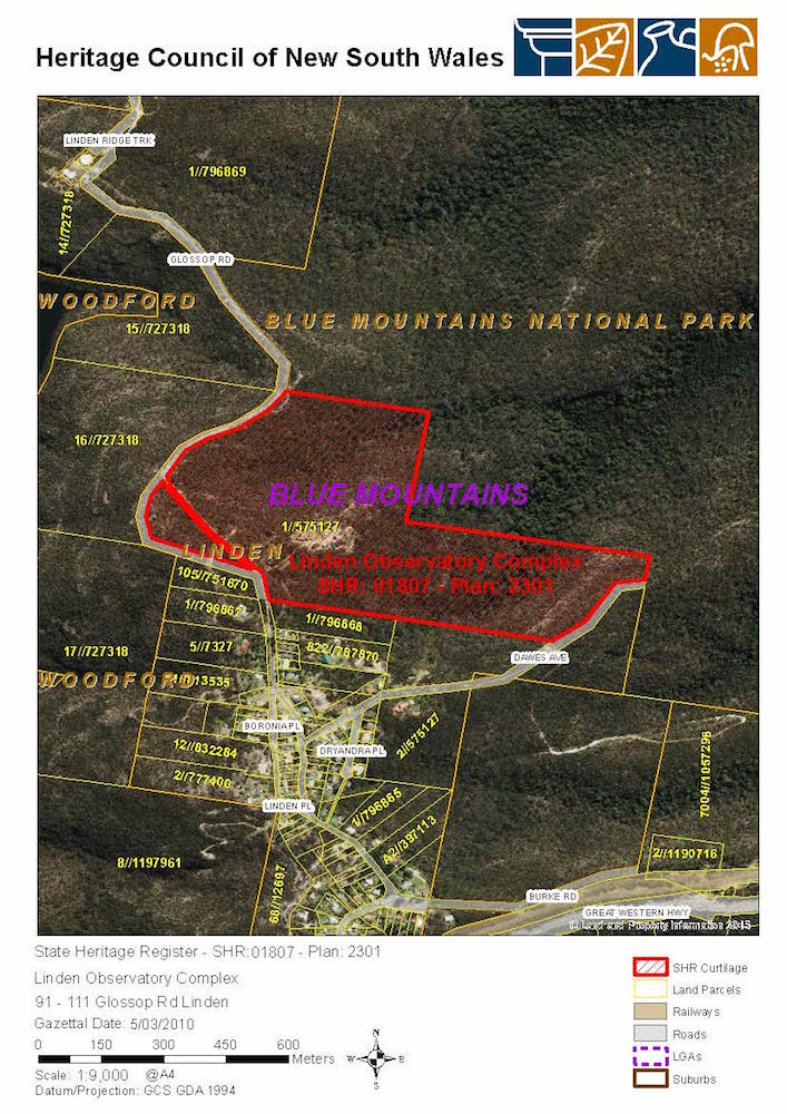 Linden Observatory Complex: SHR Plan 2301